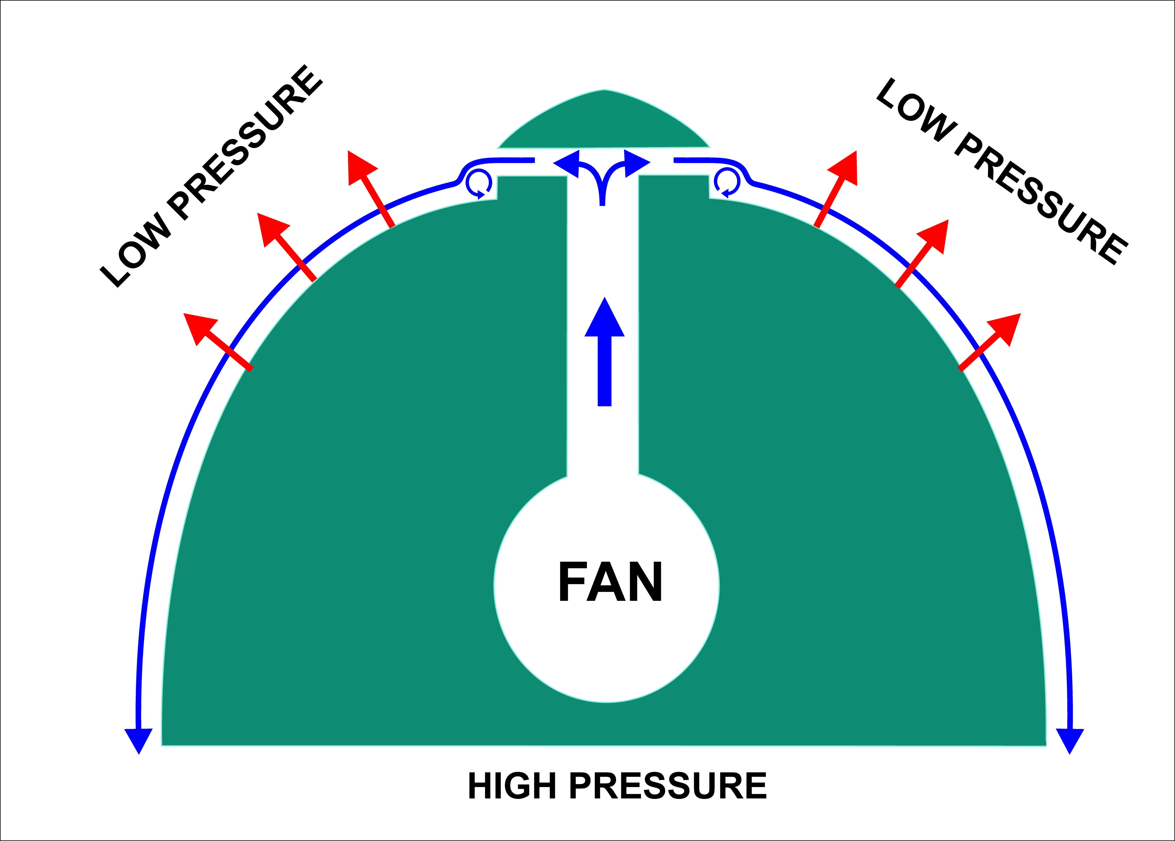 A diagram of a generic machine that uses the Coanda Effect to generate lift or forward motion (if turned 90° on its side)